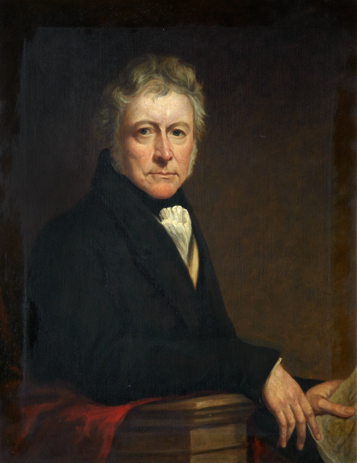 Thomson, William John; Self Portrait; Royal Scottish Academy of Art & Architecture